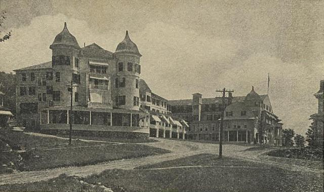 The Waumbek Hotel, Jefferson, NH; from a c. 1905 postcard.